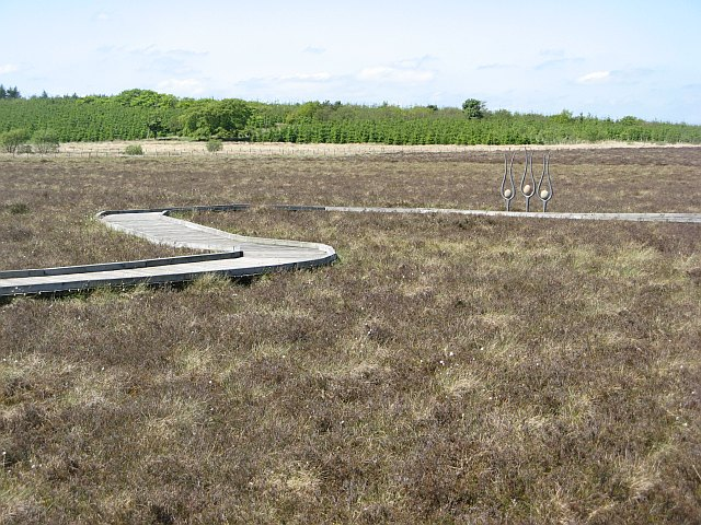 Board walk, Blawhorn Moss A raised walkway allowing a close up view of the bog. A sculpture, inspired by the reproductive organs of a moss is one of three along the loop of path. Blawhorn Moss is a National Nature Reserve preserving a large remnant of raised bog. A lovely place.